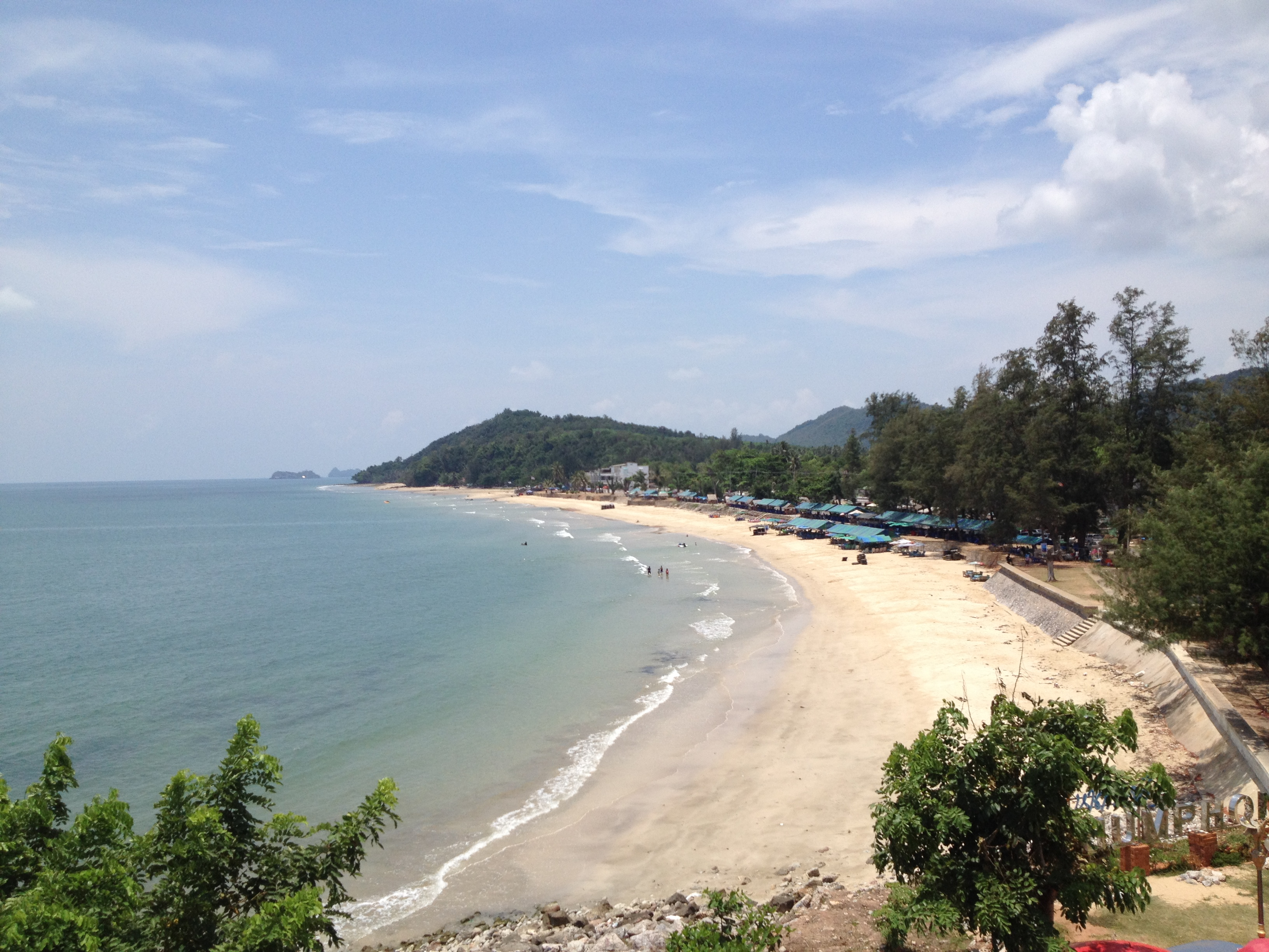 Sairee Beach